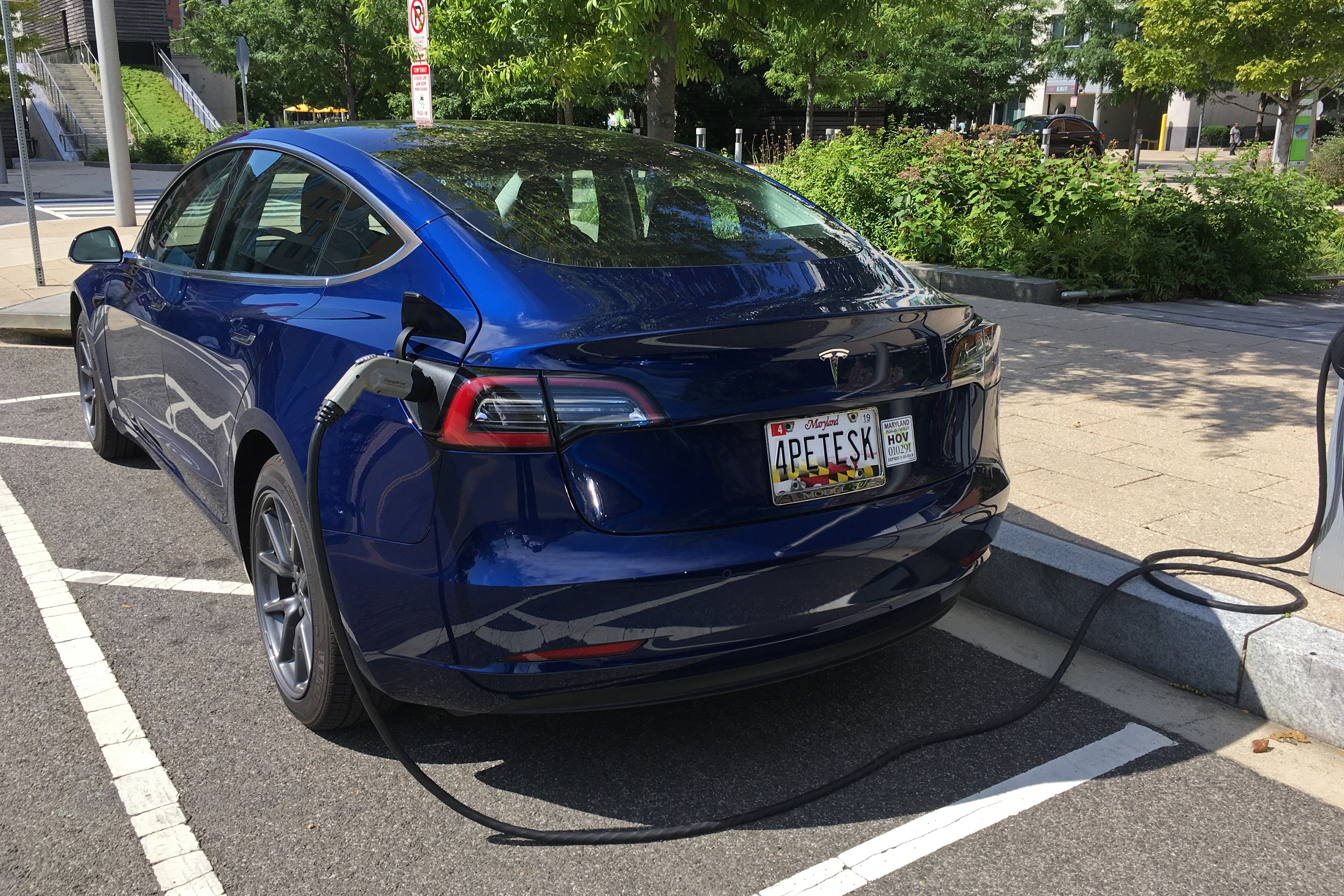 Rear view of a Tesla Model 3 charging at a ChargePoint on street public charging station. Washington, D.C.